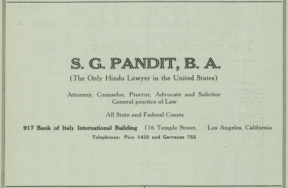 Advertisement for Sakharam Ganesh Pandit, "The Only Hindu Lawyer in the United States," in the March 1921 issue of The Independent Hindustan.